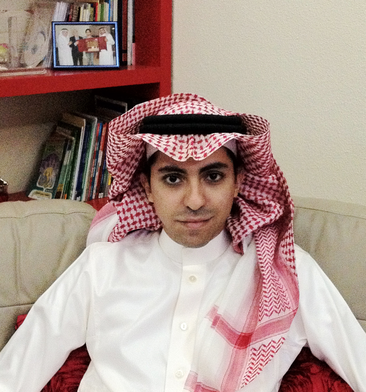 Picture of Raif Badawi (Arabic: رائف بدوي), a Saudi Arabian writer and activist.